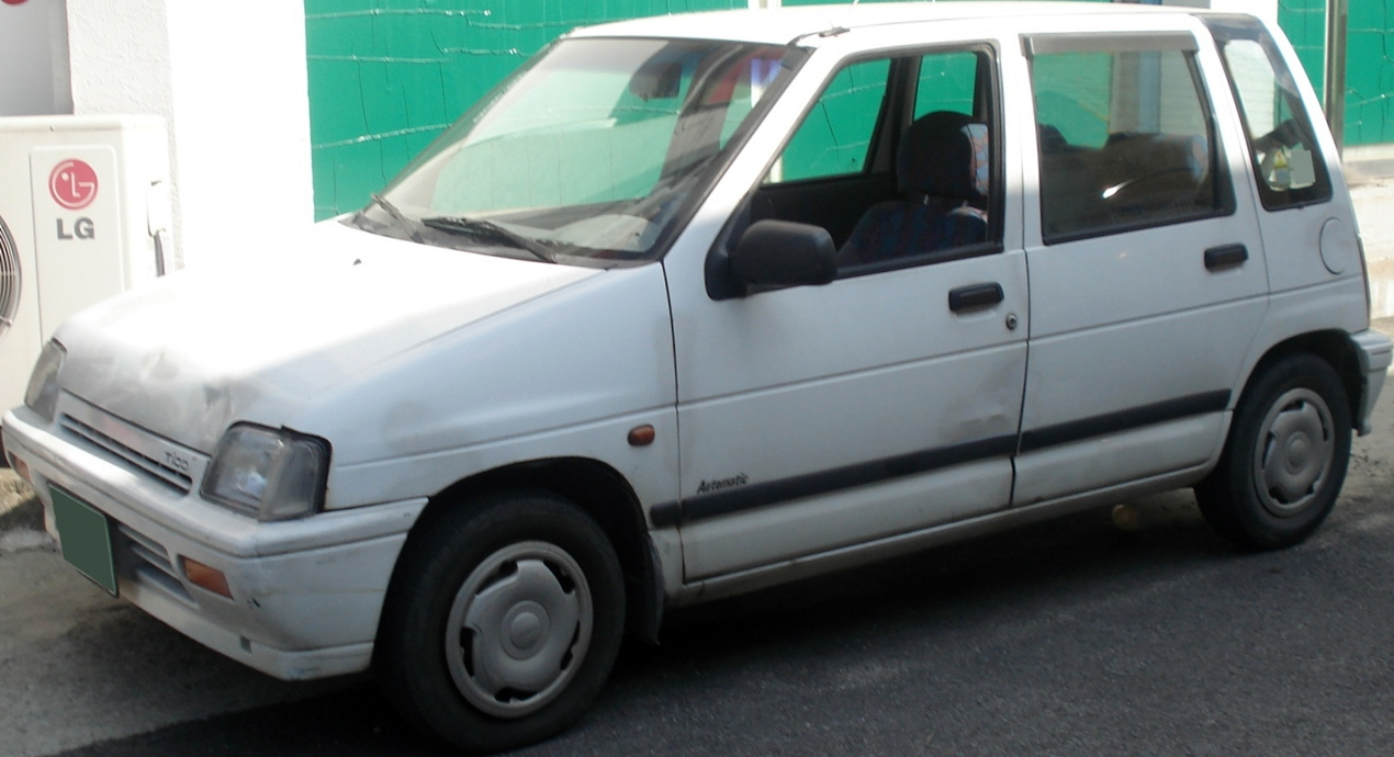 Daewoo Tico